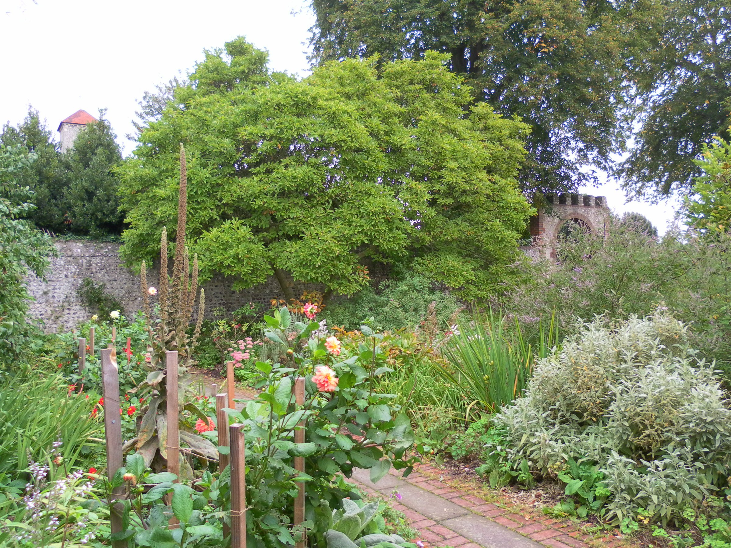 The recently restored Edwardian garden at Preston Manor, Preston Park, City of Brighton and Hove, England.